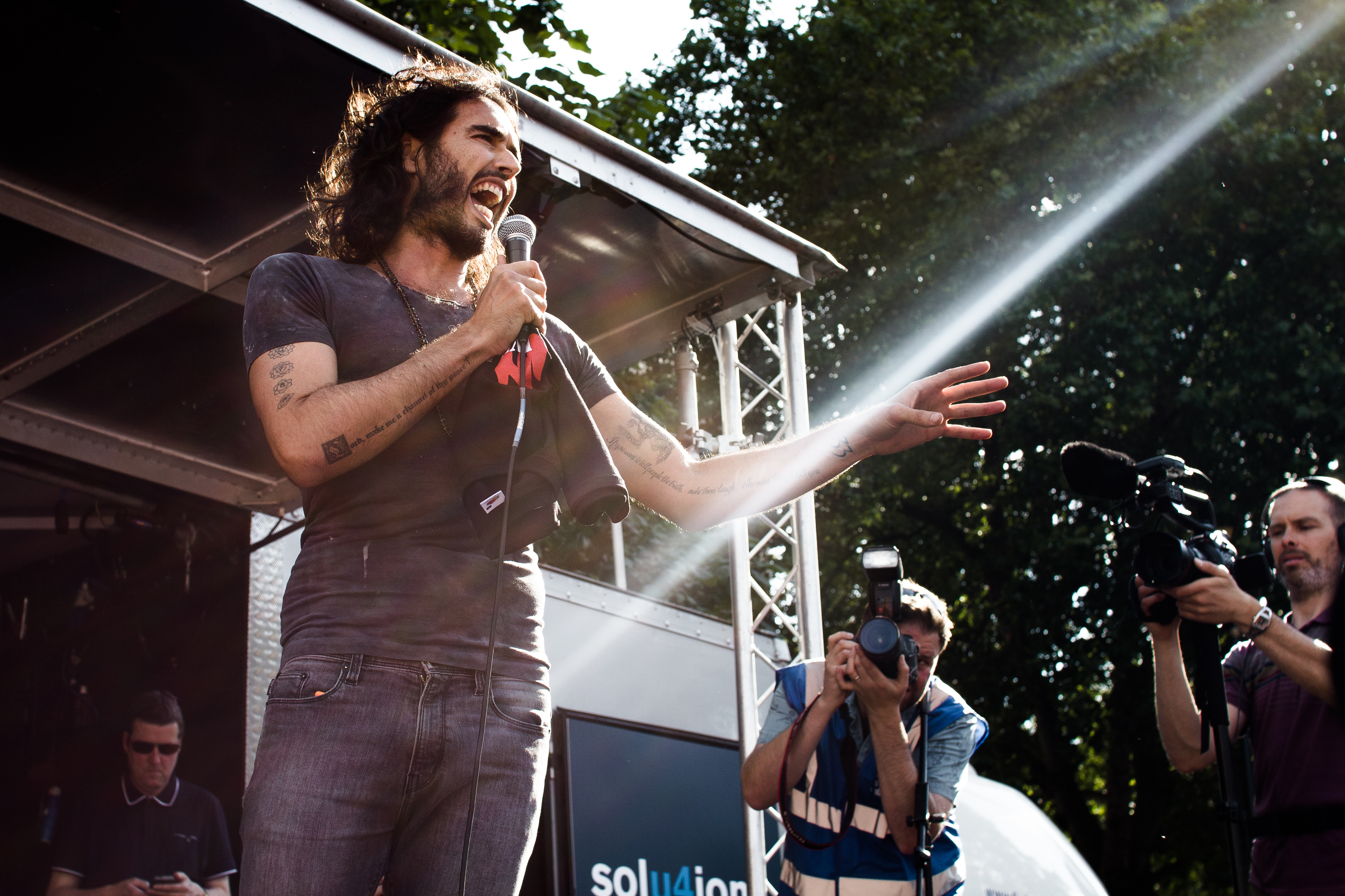 Russell Brand at the Peoples’ Assembly demonstration against austerity. Free to use under Creative Commons Licence. If used for publication i'd be grateful if you could let me know.